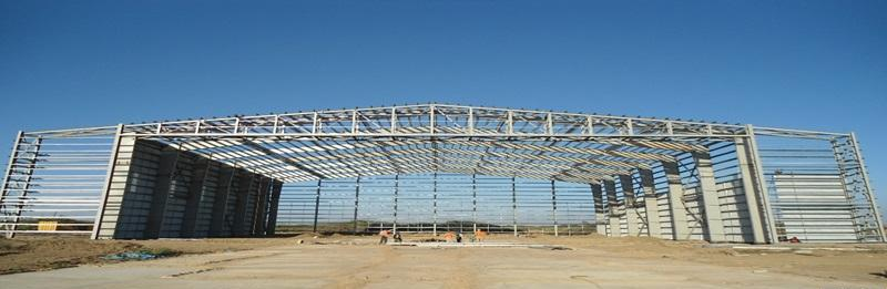 PEB photo